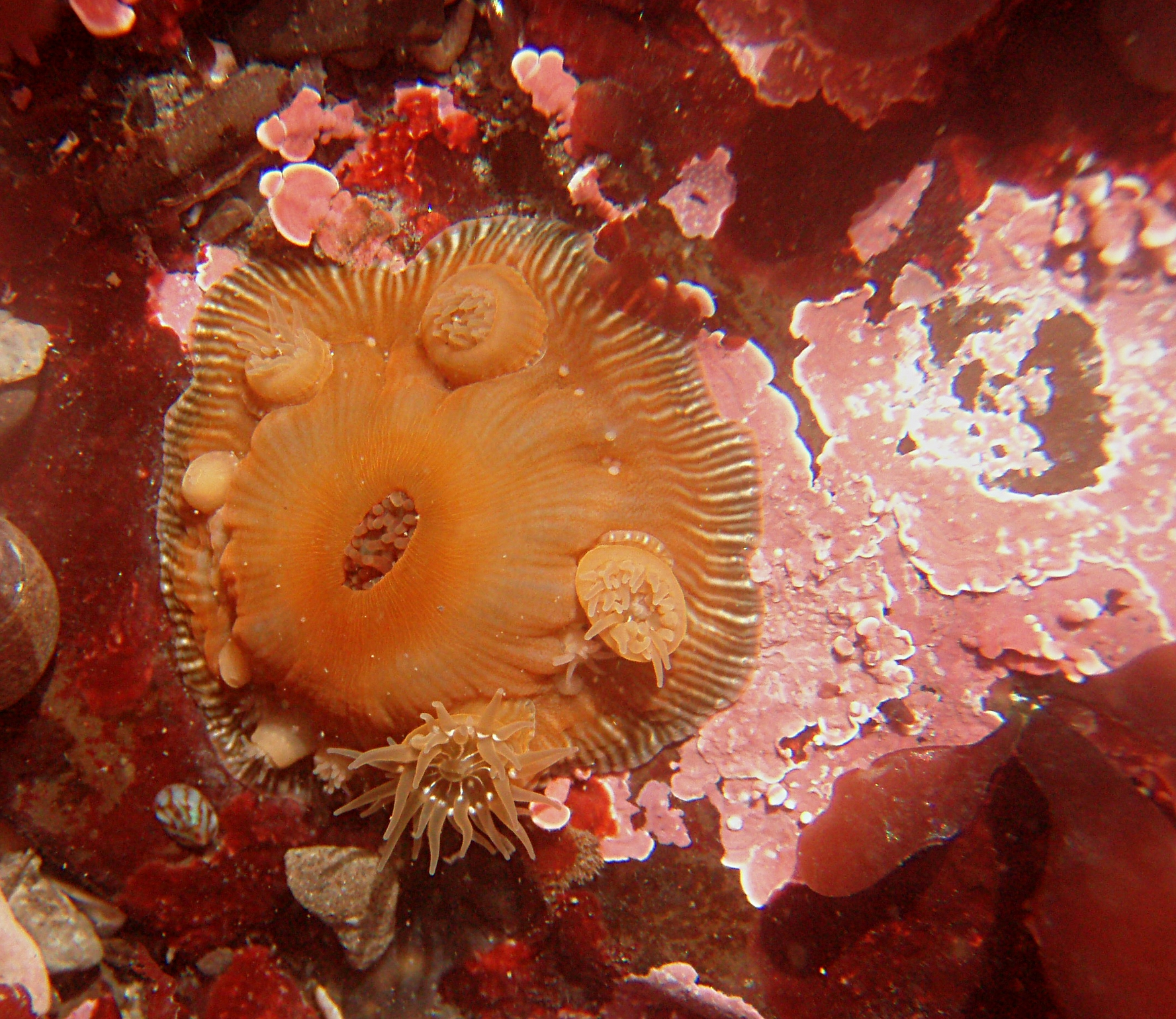 Brooding Sea Anemone,Epiactis prolifera.The numerous young in different stages of developmentare seen on the pedal disk are derived from eggs fertilized in the digestive cavity.The brooding anemone is a colonial hermaphrodite that fertilizes and incubates its eggs internally. The motile larvae, after swimming out of the mouth, migrate down to the disk and becomes installed there until they become little anemones ready to move and be able to feed themselves.The image was taken in Tide pools